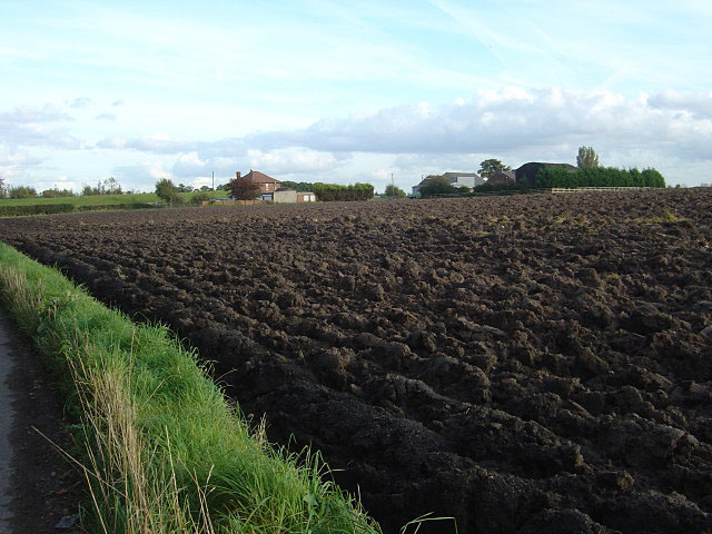 Lancashire Loam The rich black soil of south Lancashire has been a prolific supplier of vegetables, etc., to the industrial heartland of the district.